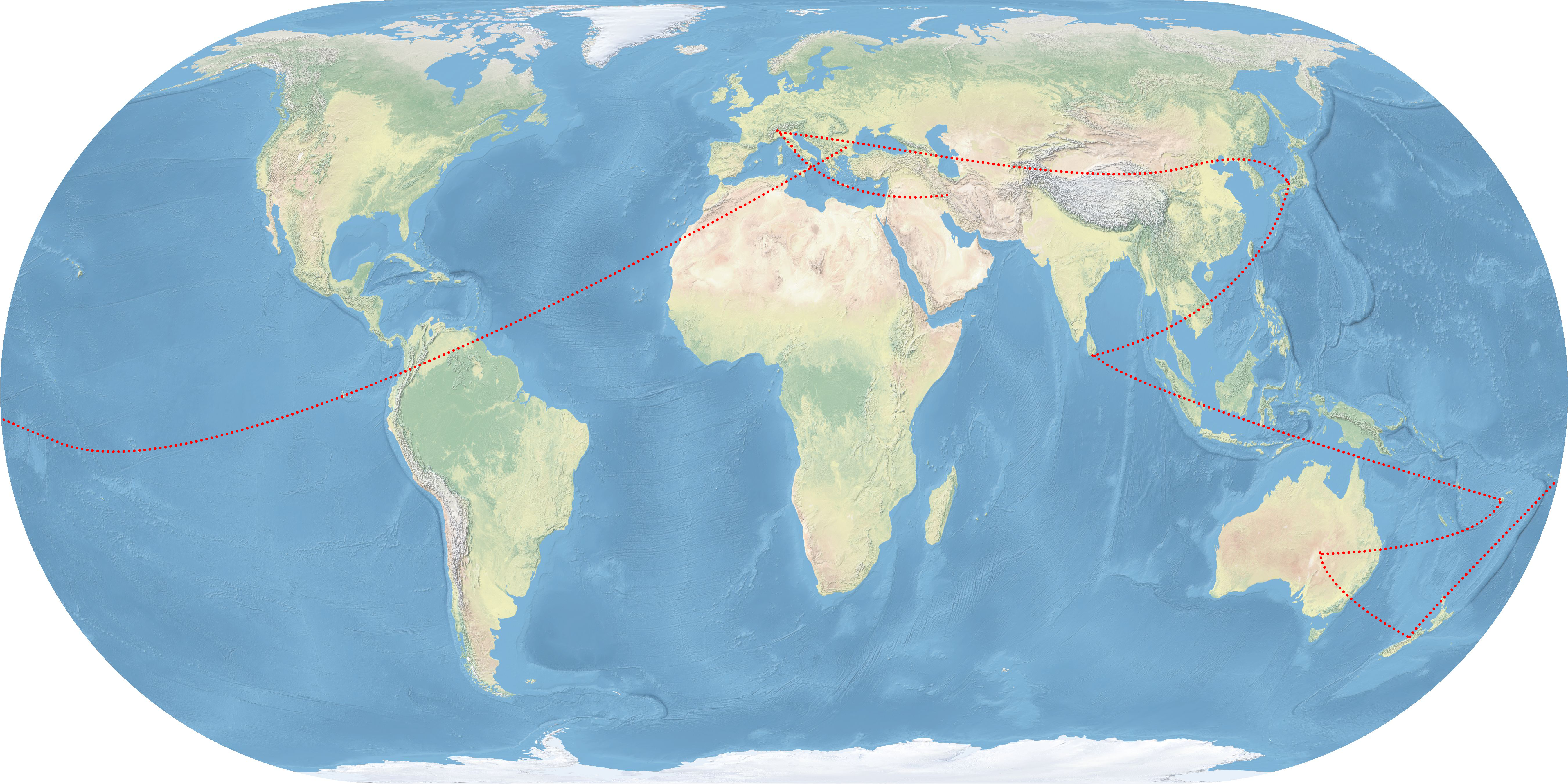 Anka Lambreva's second voyage, the first Bulgarian woman to circumnavigated the globe.